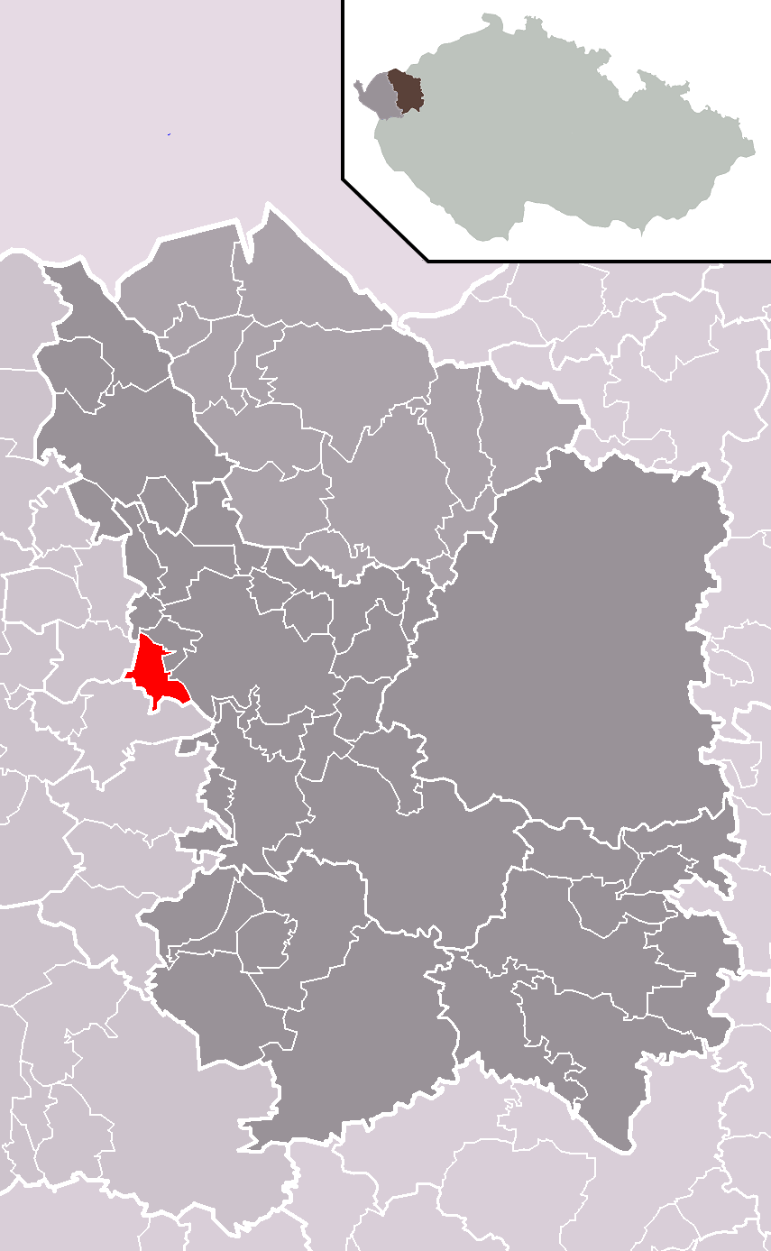 Location of Hory municipality within Karlovy Vary District and administrative area of Karlovy Vary as a Municipality with Extended Competence.